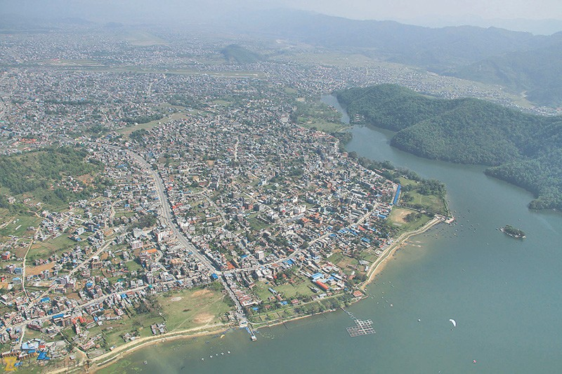 Ariel View of Pokhara